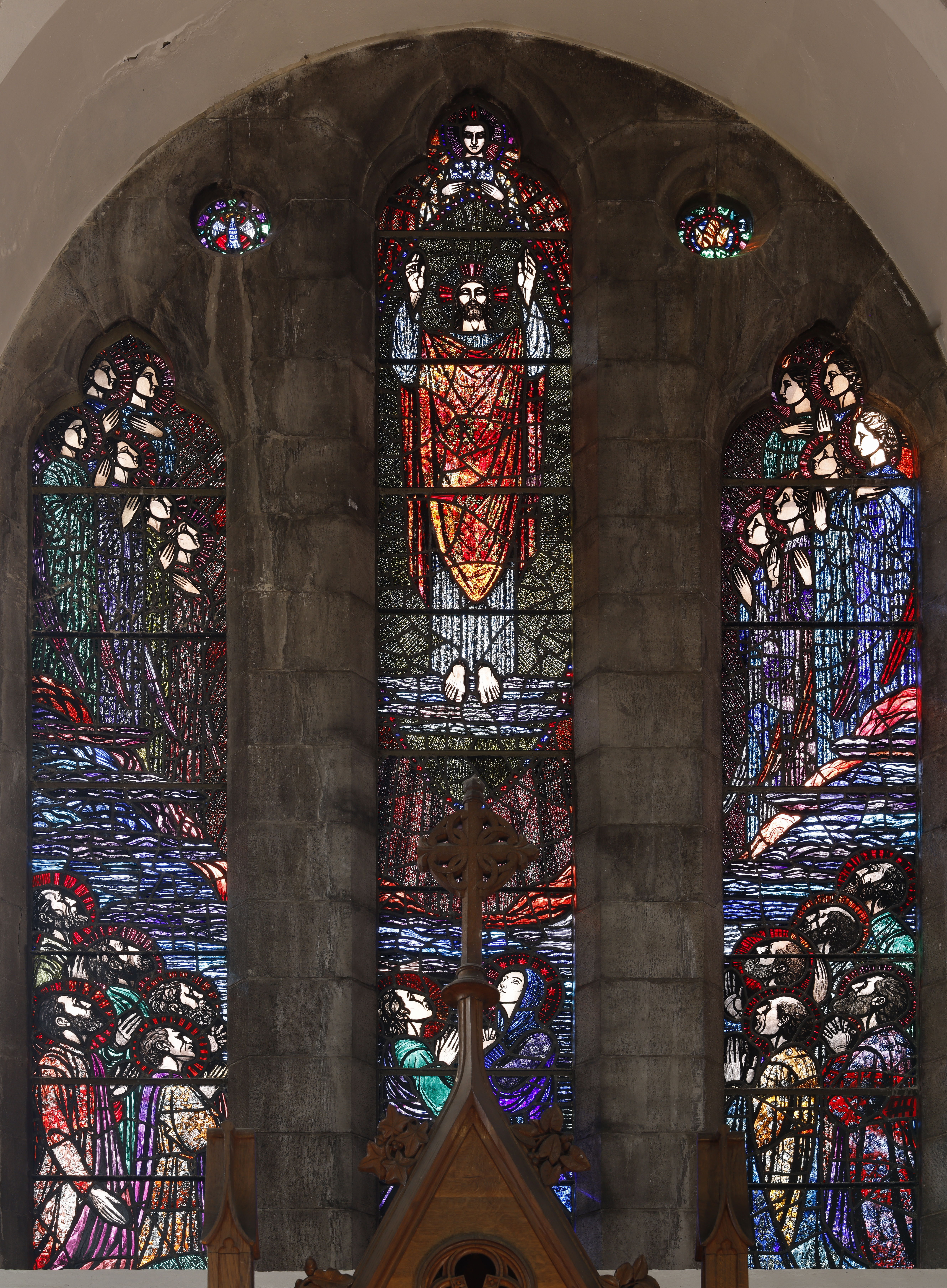 Stained glass window in the west transept by Michael Healy (1873–1941), depicting the Ascension. This work was created in 1936 in the An Túr Gloine workshop in Dublin. Stitched using two photos. (See Nicola Gordon Bowe et al, Gazetteer of Irish Stained Glass, ISBN 0-7165-2413-9, p. 57; St Brendan's Cathedral, Loughrea, ISBN 0-900346-76-0.)